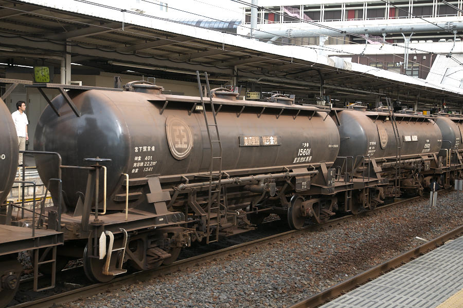 JR Freight type Taki 15600 in Omiya station.